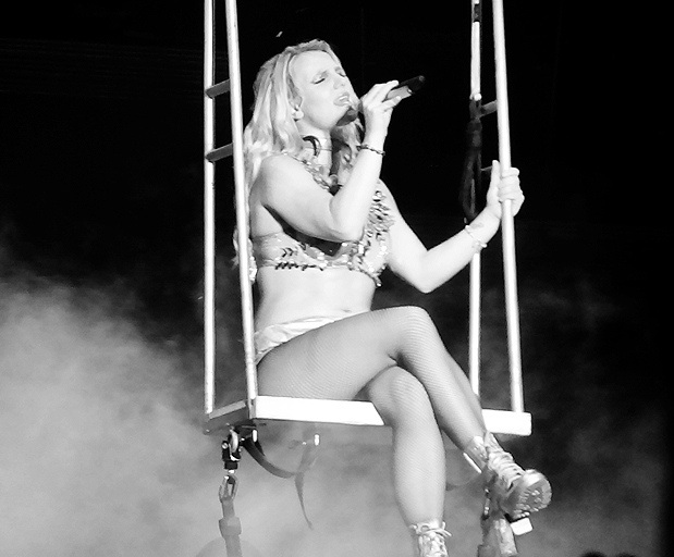 Britney Spears Femme Fatale Tour Live Argentina